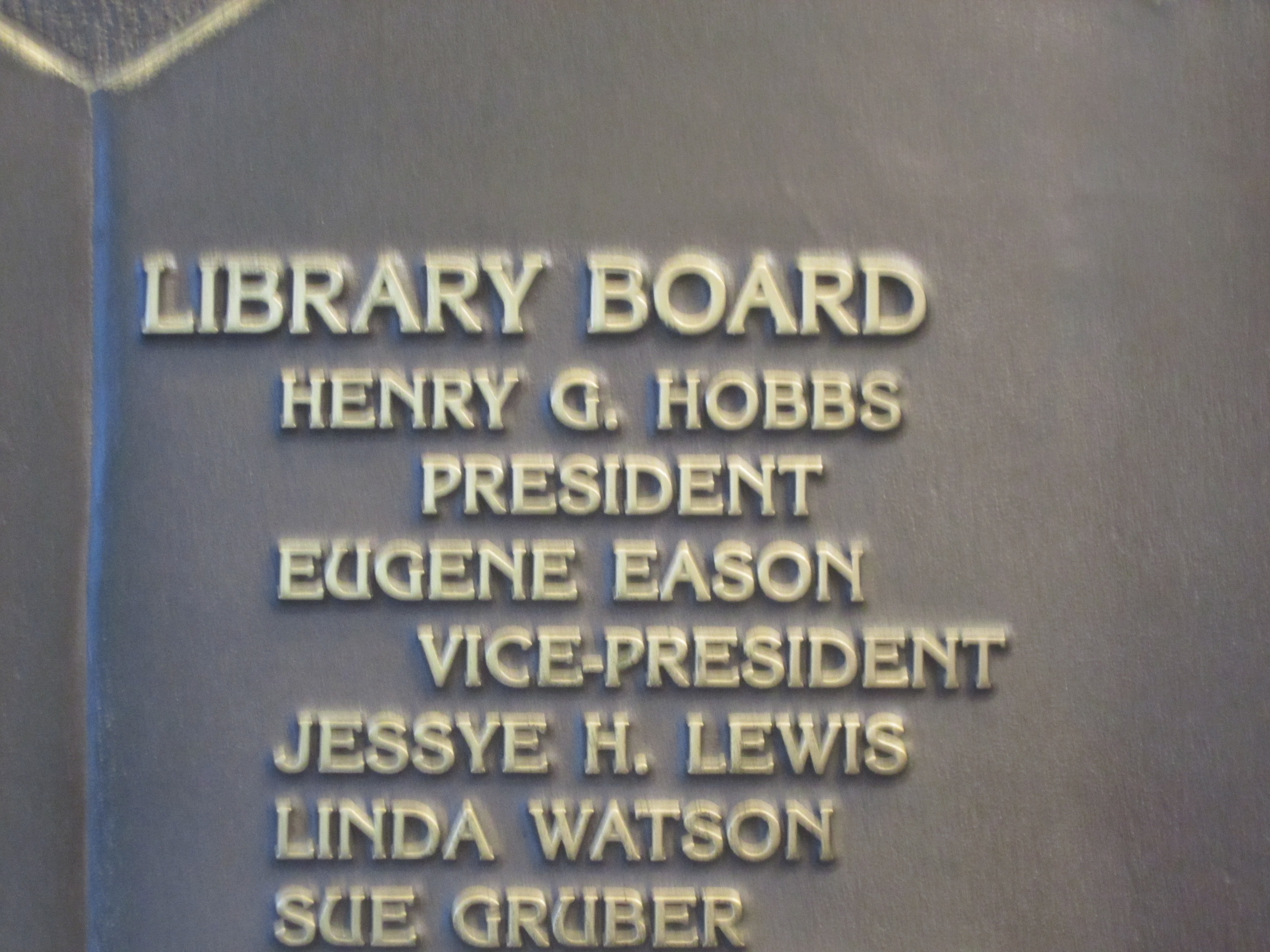 I took photo of plaque of the board members' names at Webster Parish Library in Minden, LA, with Canon camera.